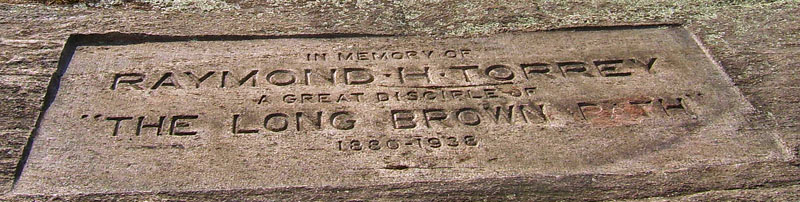 Photographed by Daniel Case 2006-05-28. Plaque reads "In memory of RAYMOND H. TORREY, a great disciple of THE LONG BROWN PATH, 1880-1938".